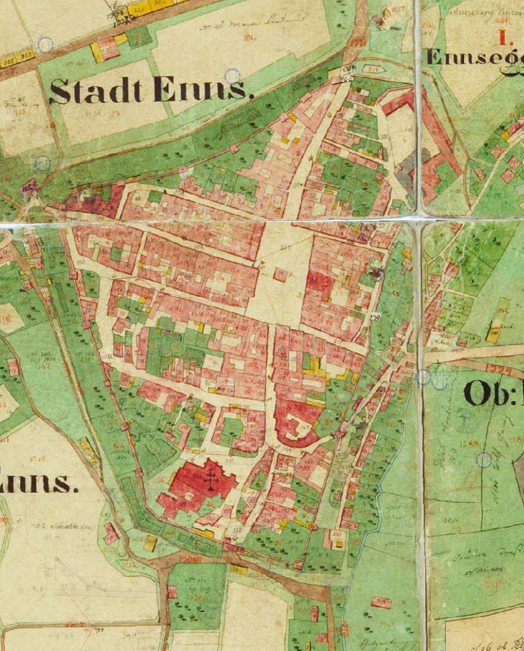 Enns Upper Austria. Franziszeische Landesaufnahme 2nd Military Survey c1835